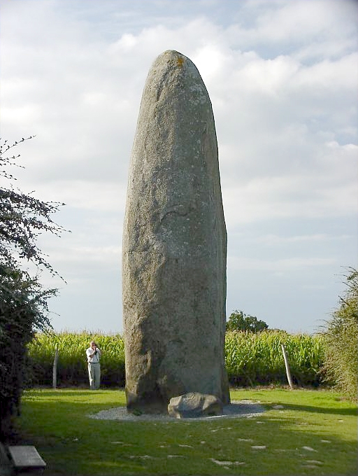 The large menhir in the Dol-de-Bretagne commune of Ille-et-Vilaine, Brittany, France.